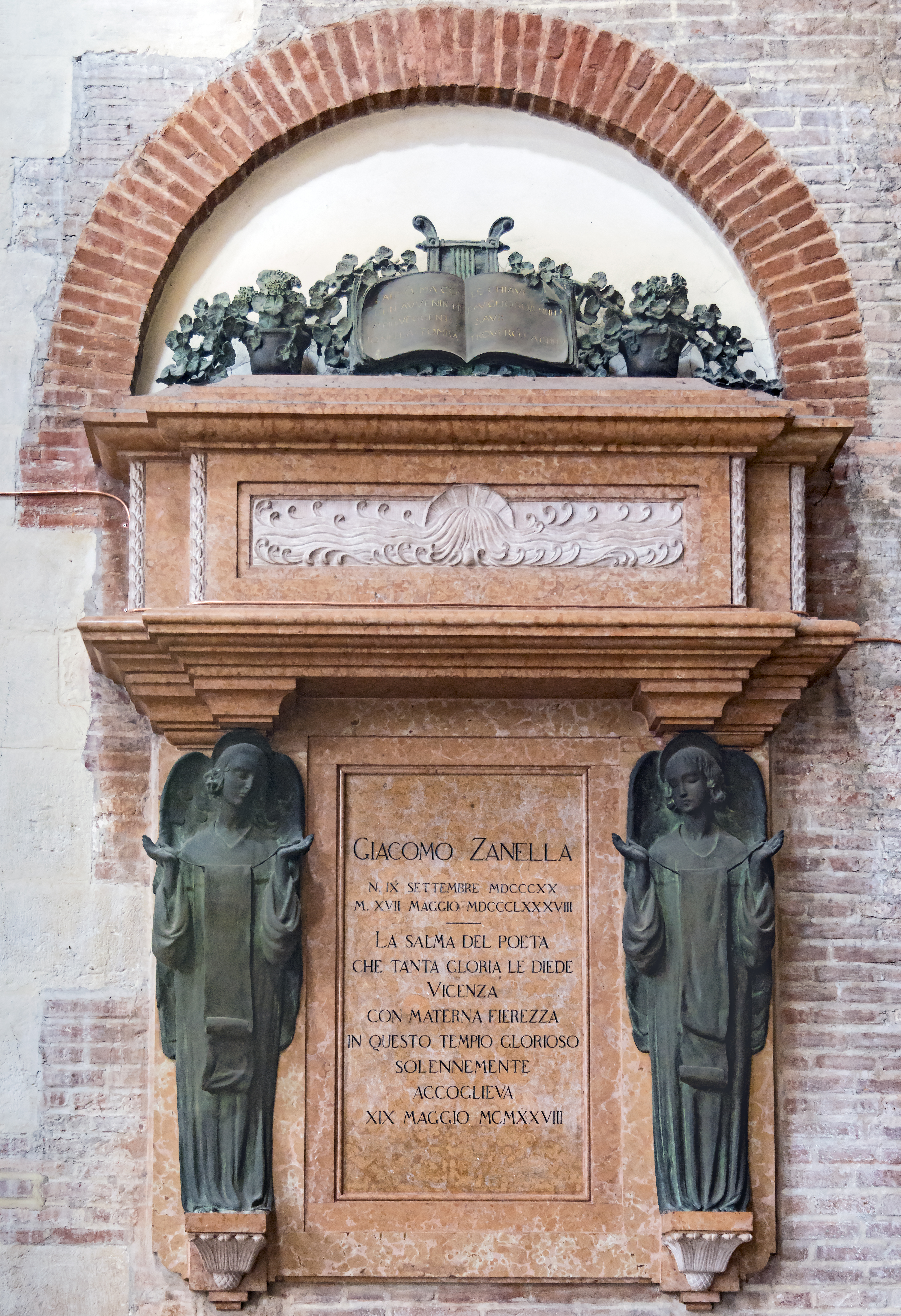 Church San Lorenzo in Vicenza - Right transept - Monument to Giacomo Zanella